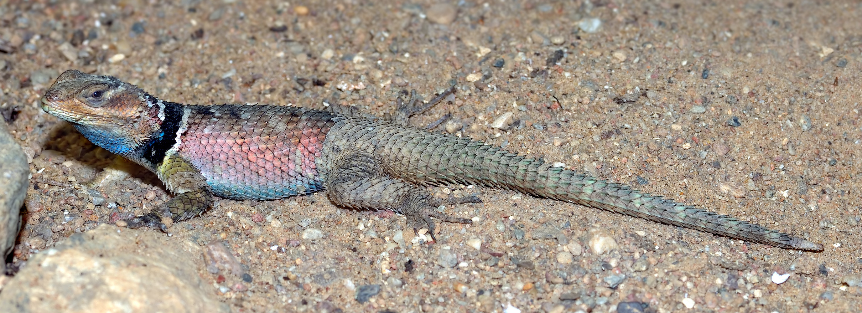 This image shows a Blue Spiny Lizard (Sceloporus cyanogenys).